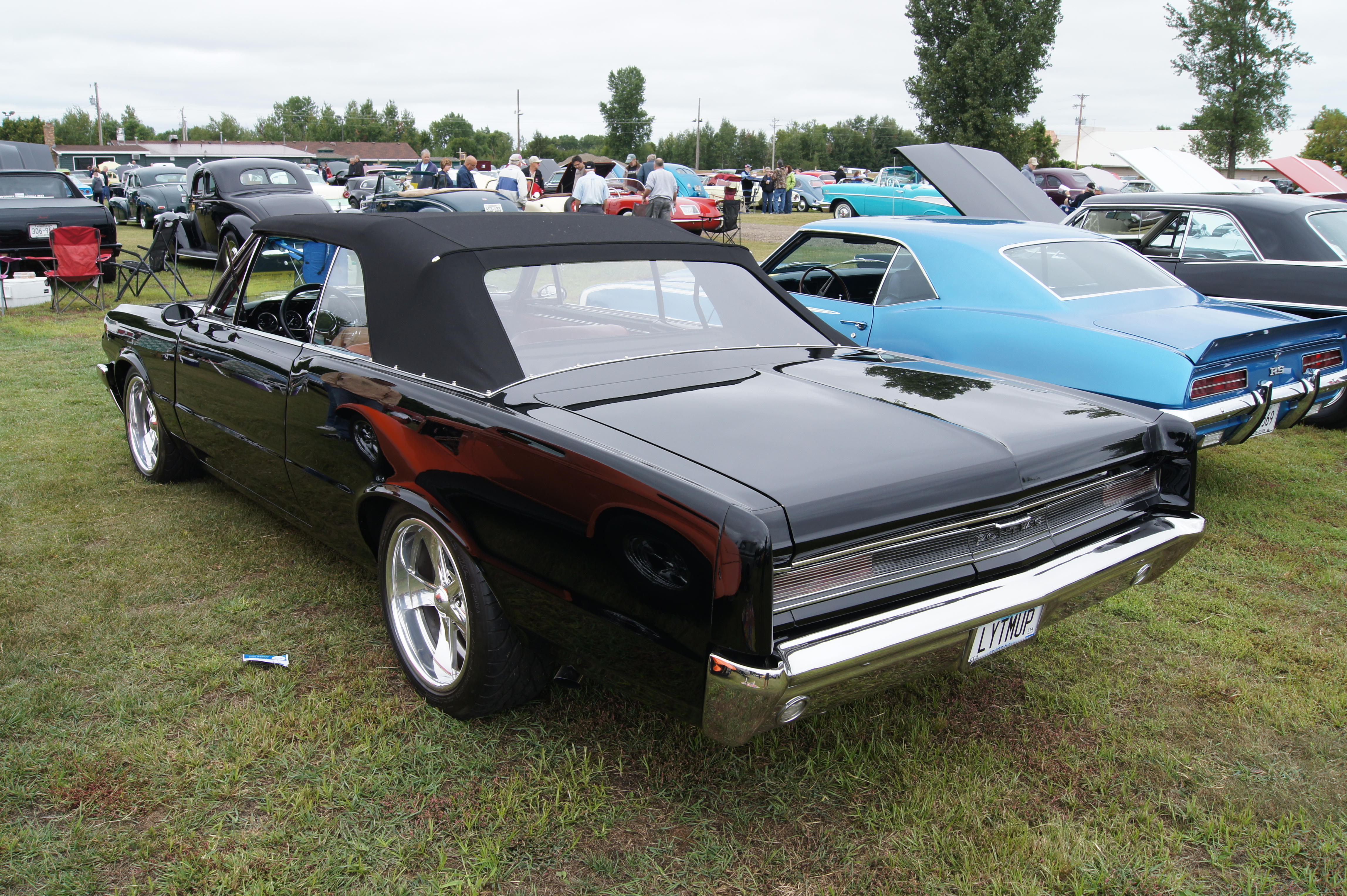 North Star Chapter Studebaker Drivers Club 13th Annual Labor Day Car Show September 2, 2013 Blacksmith Lounge Hugo, MN More Car Pictures